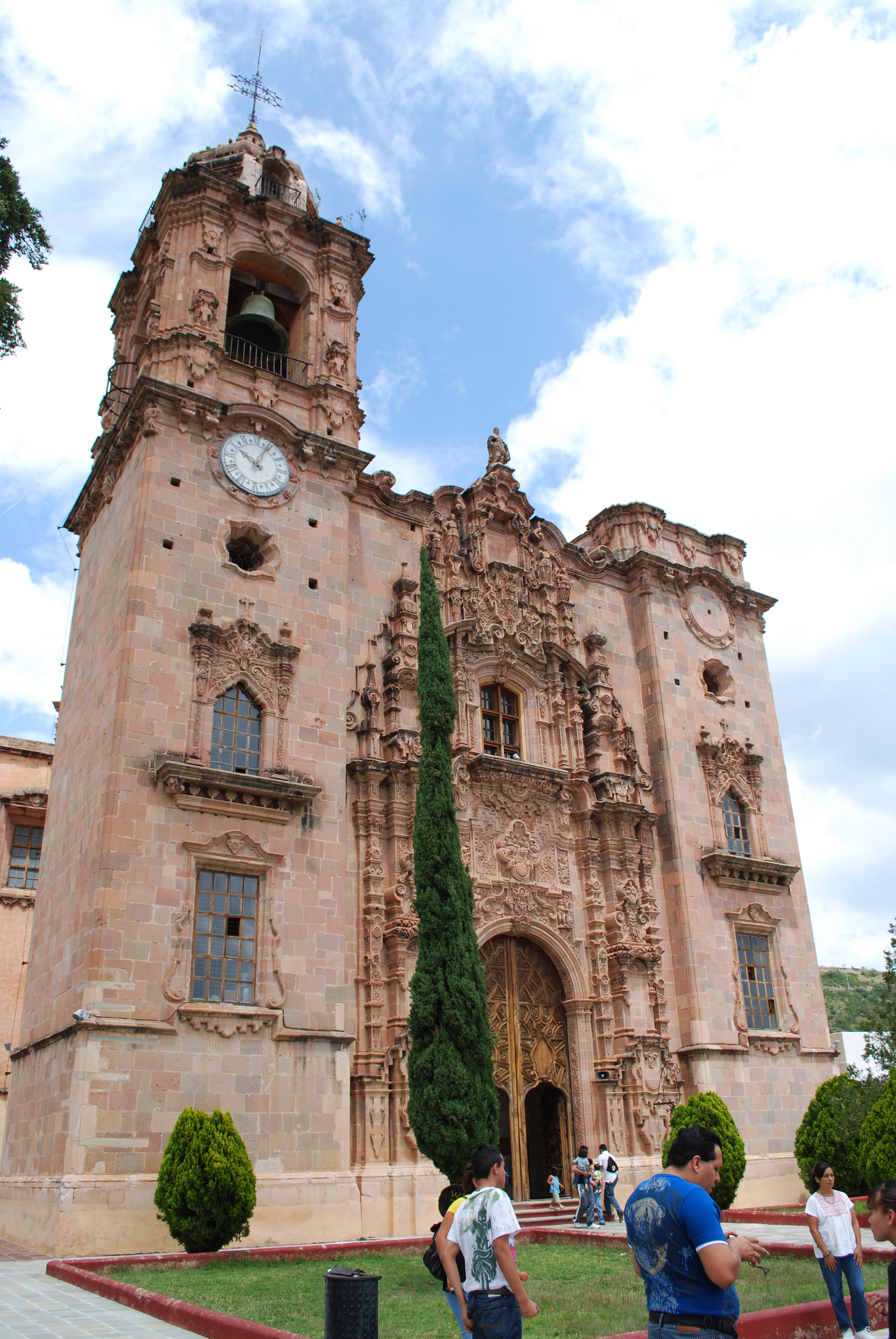 Facade of the Cayetano de Valenciana Church in Guanajuato, Mexico